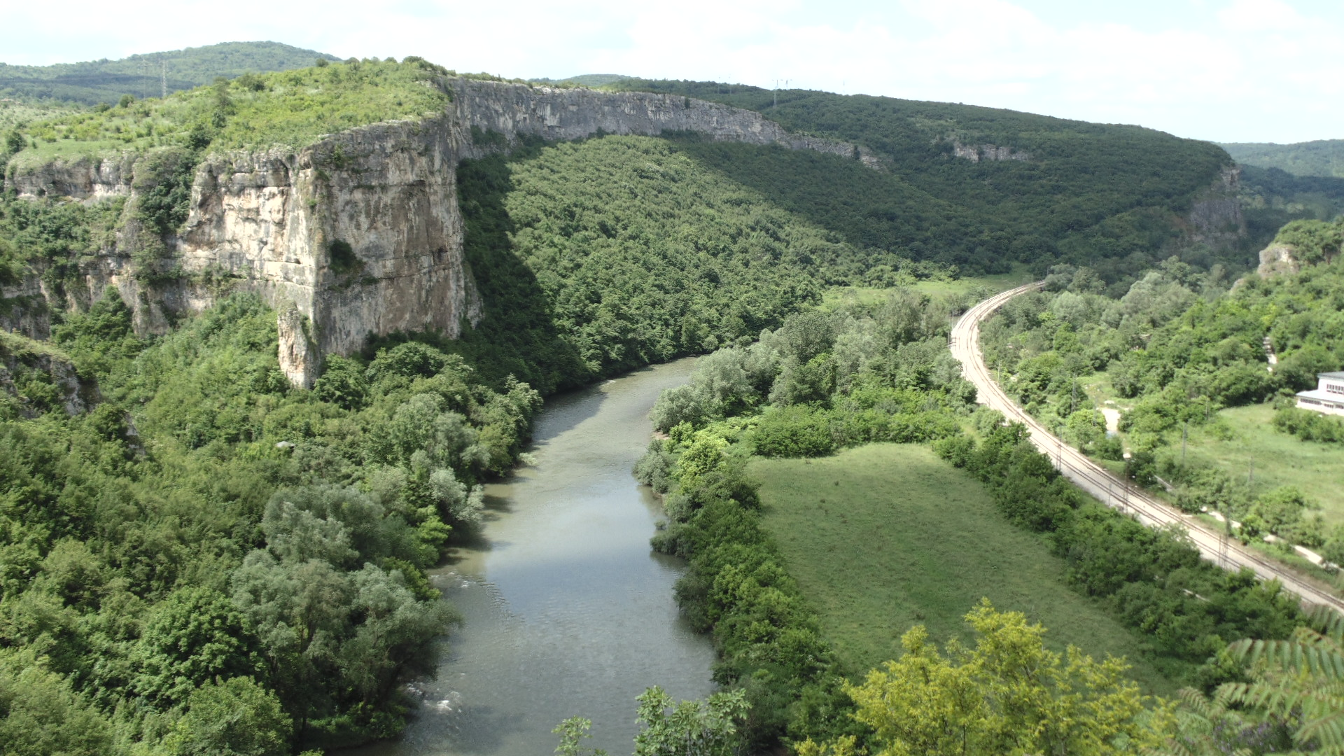 Iskar river near the town of Karlukovo